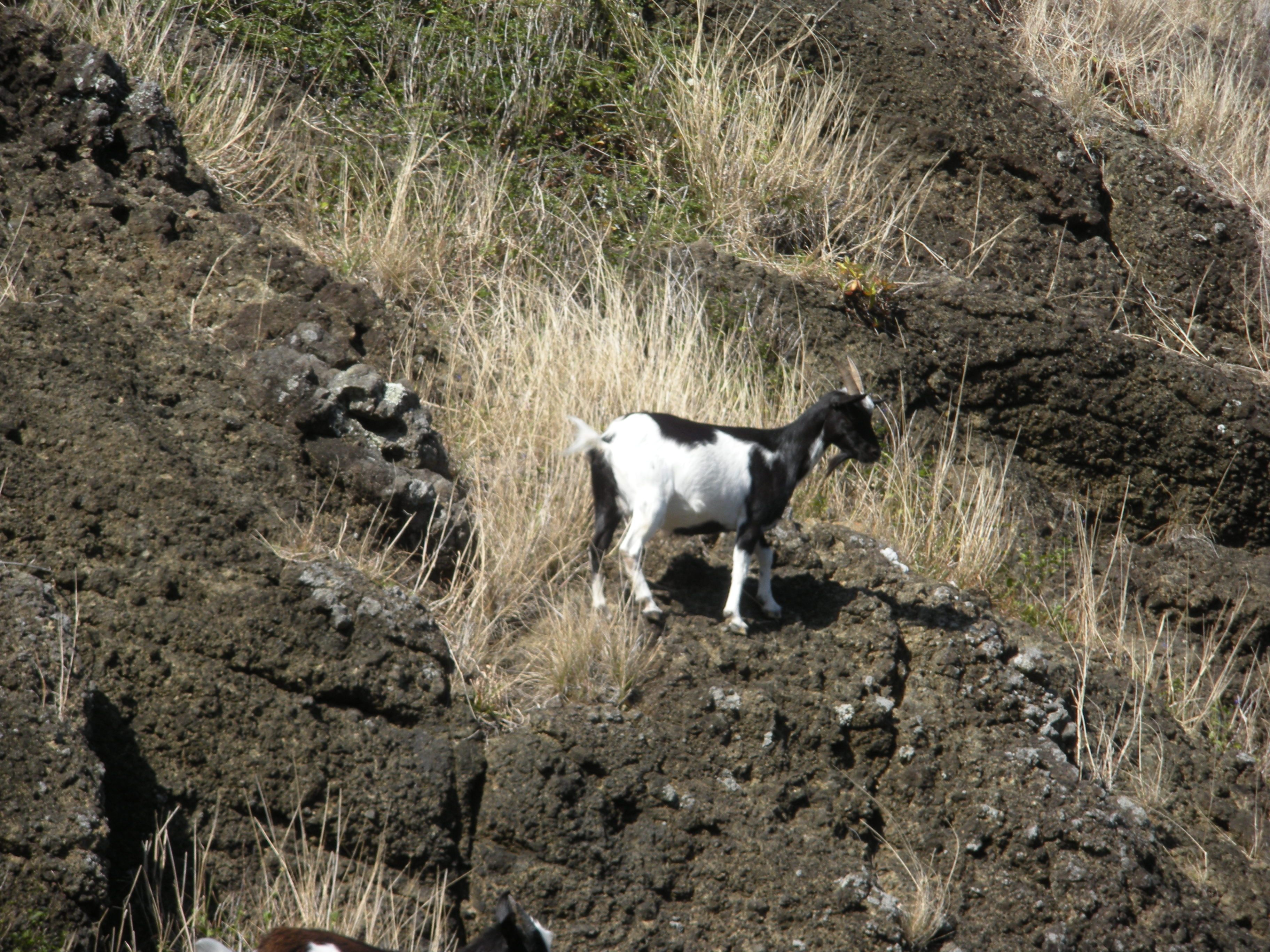 Wild goat in Bonin Islands Chichijima Island